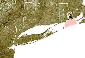 Rhode Island Sound is shown highlighted off the coast of the United States. Based on original public domain image courtesy of NOAA © 2004 Matthew Trump